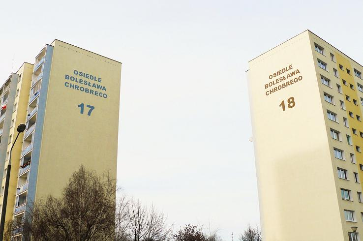 Chrobrego District in Poznan.